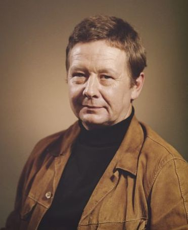 Photograph of the Finnish actor Lasse Pöysti (1927–2019).